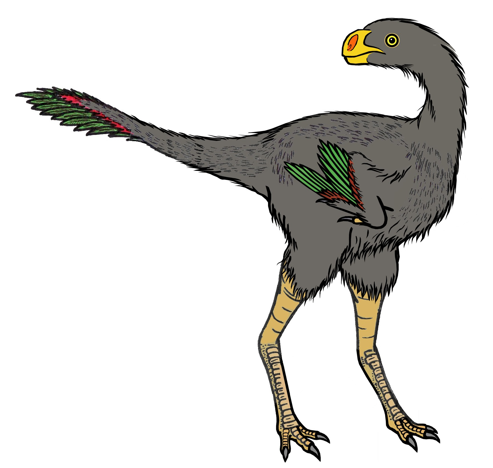 Reconstruction of the birdlike dinosaur Avimimus, depicted with feathers.